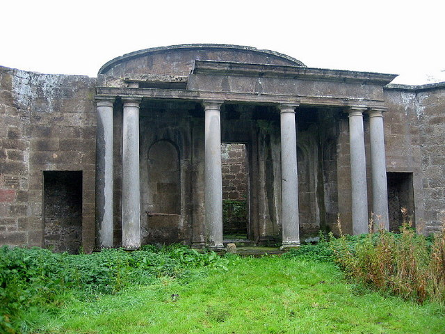 South East Pavilion (Doocot) of Amisfield Walled Garden Large walled garden of Amisfield House. The house was demolished in 1928, but the garden remains. There are 4 circular corner pavilions originally domed. This is the SE pavilion. It has been damaged by vandalism. Its design and detail are similar to the NE pavilion177937 but it was adapted for use as a doocot.